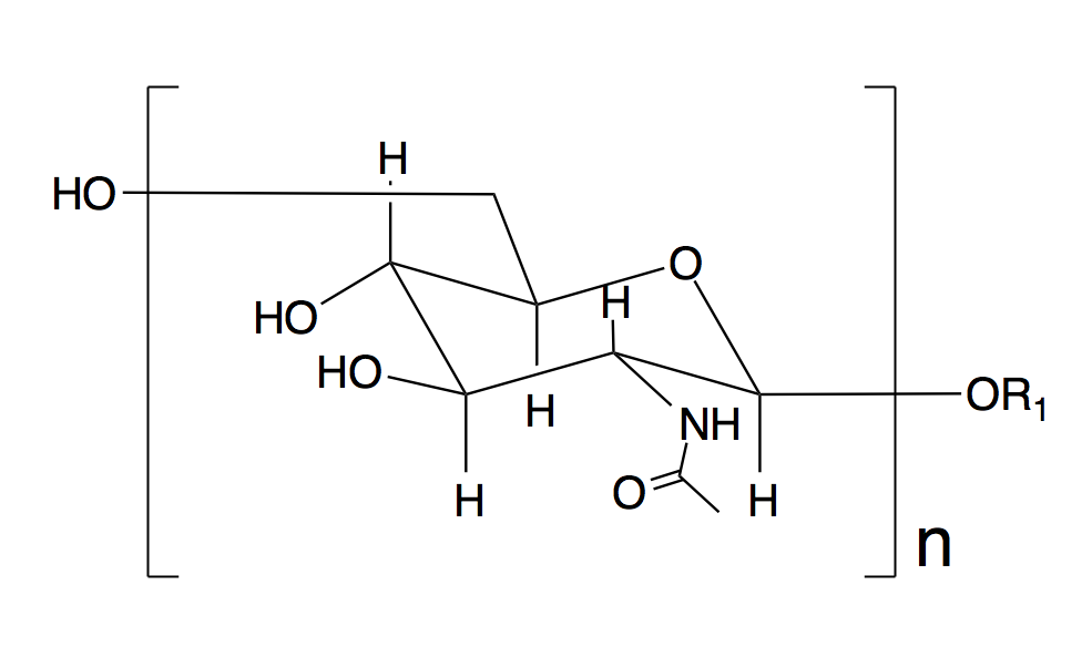 Structure of PNAG made using Chem Draw